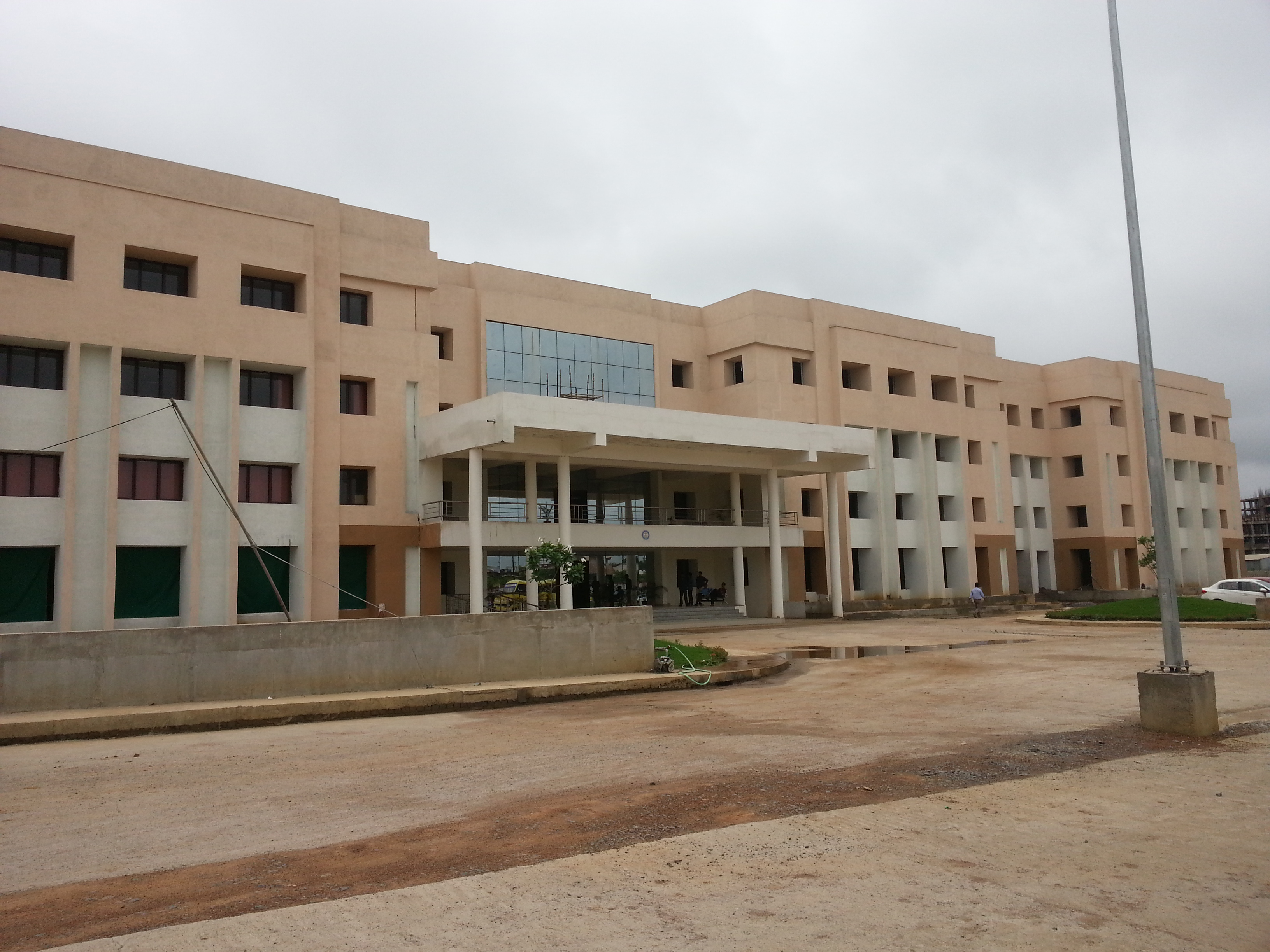 It is the view of AIIMS Raipur Medical College